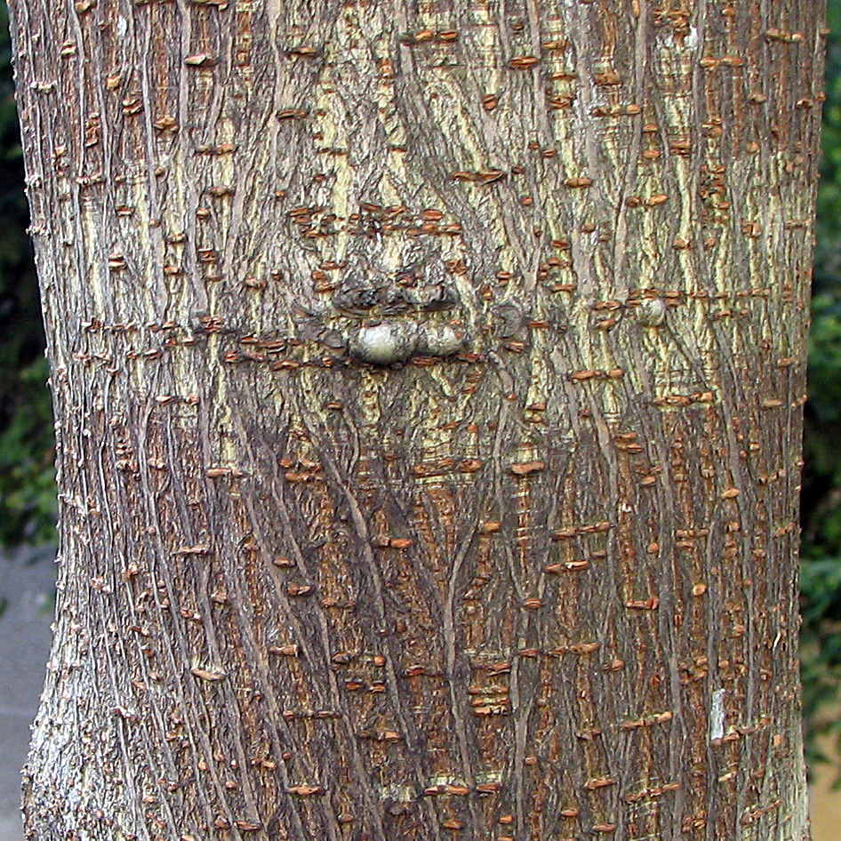 Lenticels of Broussonetia tree